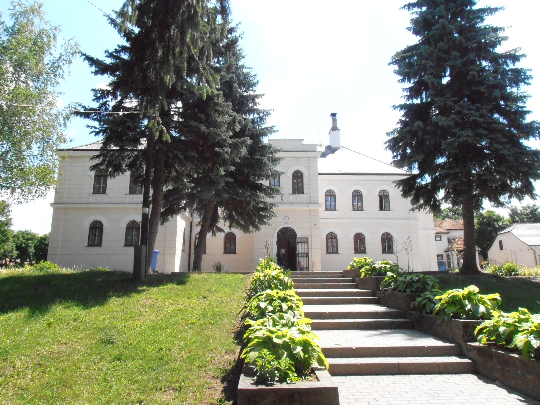 Rákóczi Castle in Felsővadász, Hungary A felsővadászi Rákóczi-kastély